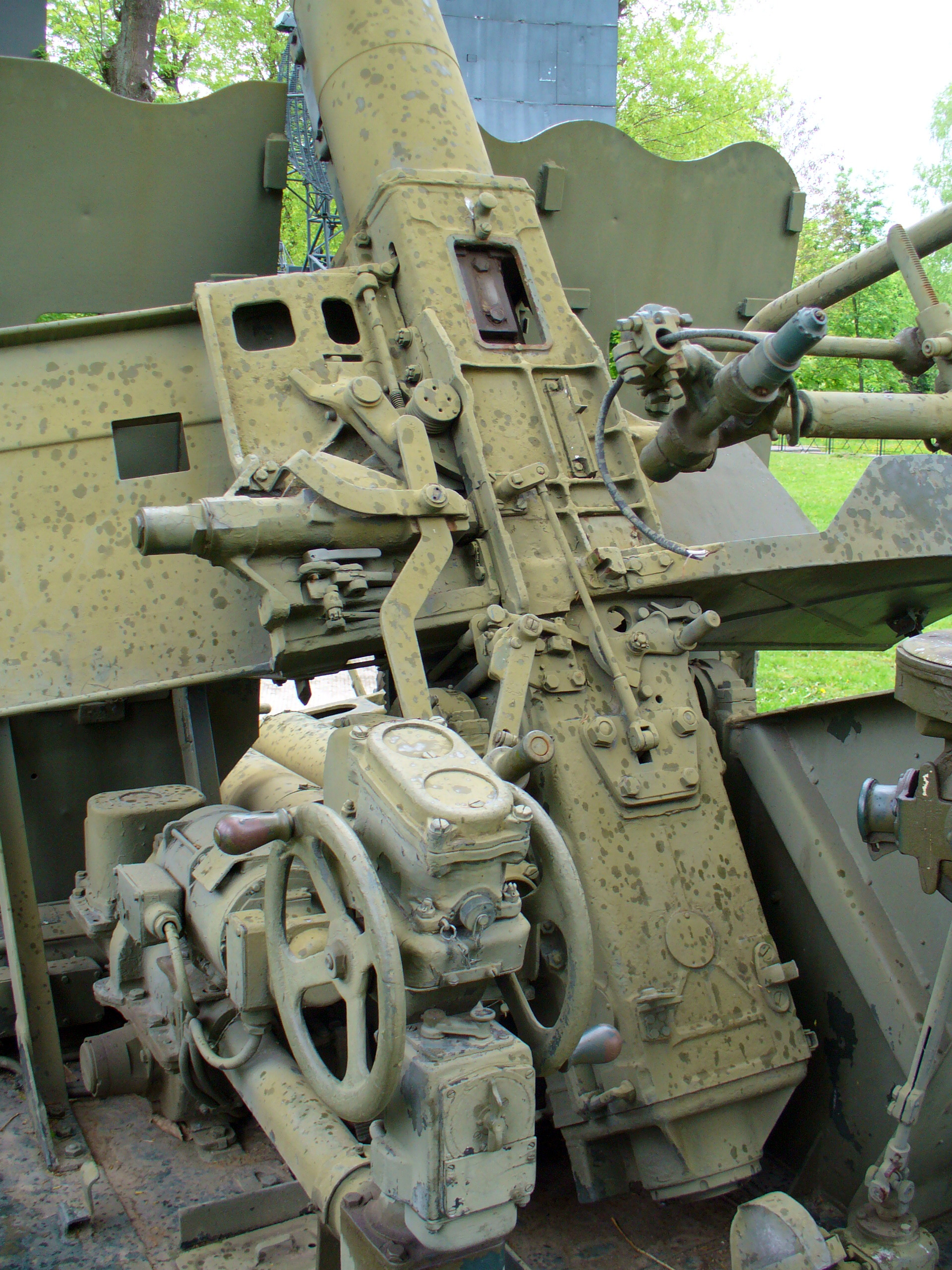 57 mm AZP S-60, anti-aircraft gun. Ukrainian Air Force Museum in Vinnitsa.